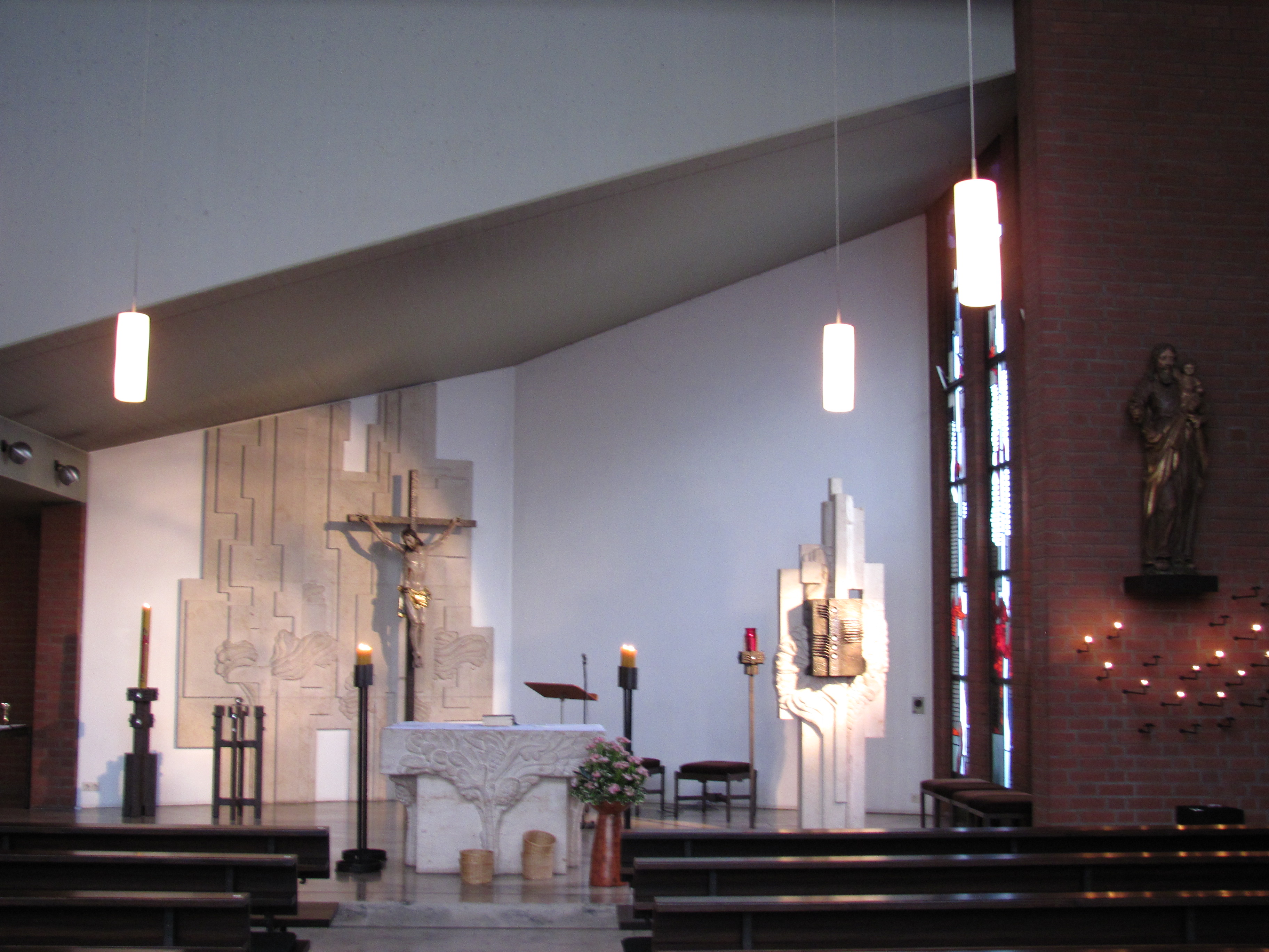 Saint Josef Church, Hildesheim, Germany